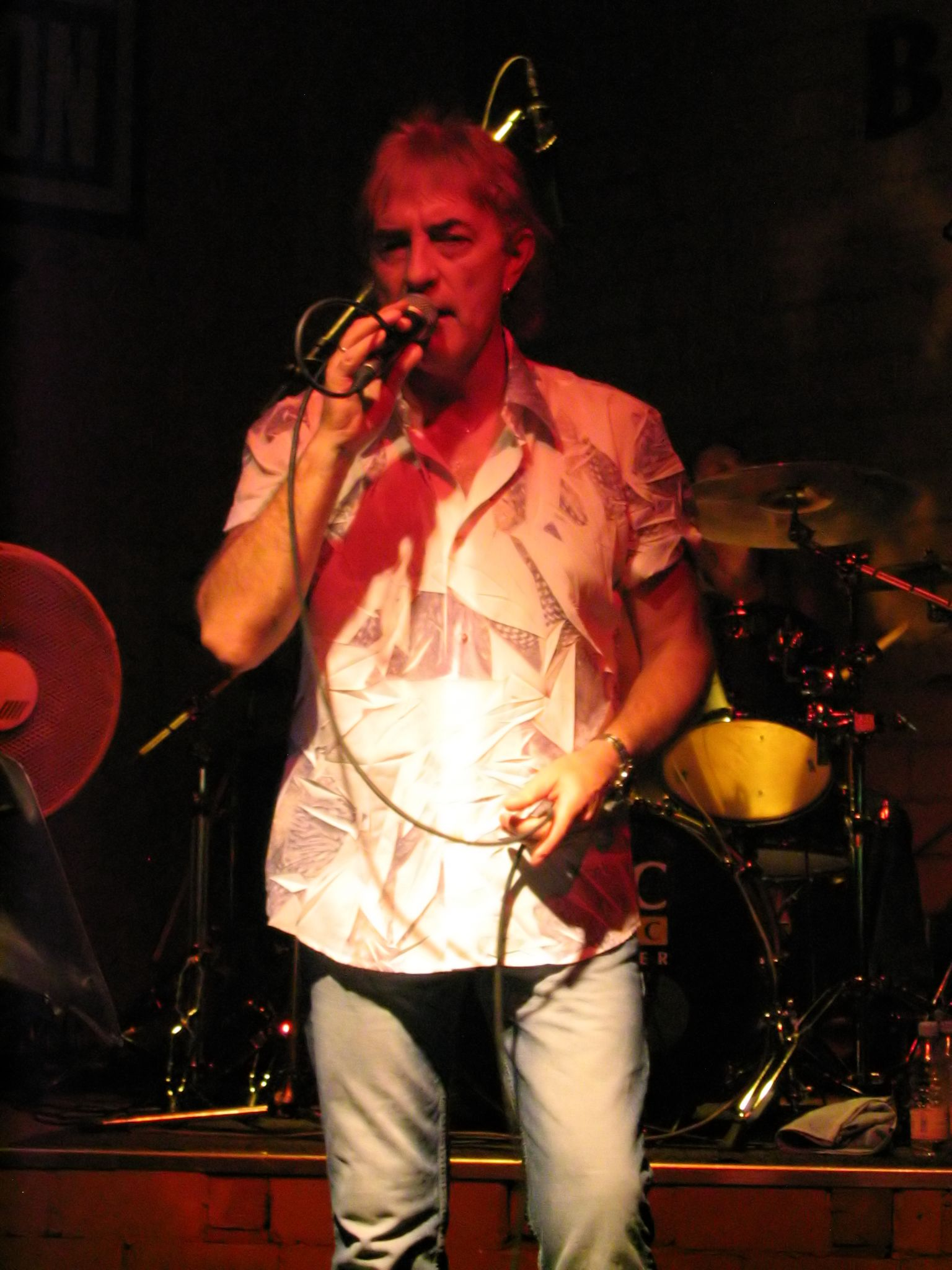 John Lawton on Stage 2003 in Concert of John Lawton Band at Blues Garage, Isernhagen